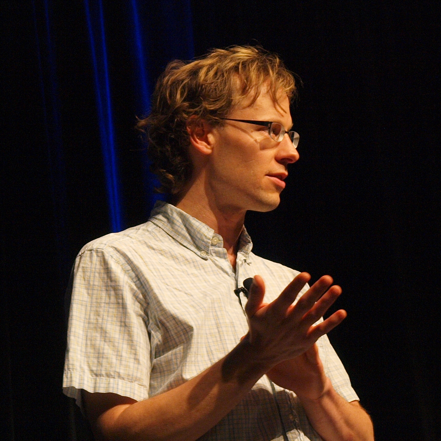 Chris Hecker at the Game Developers Conference in 2010 (third day), speaking at "Achievements considered harmful?".